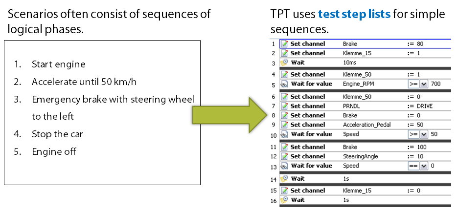 Another example in detail of a Test Step List